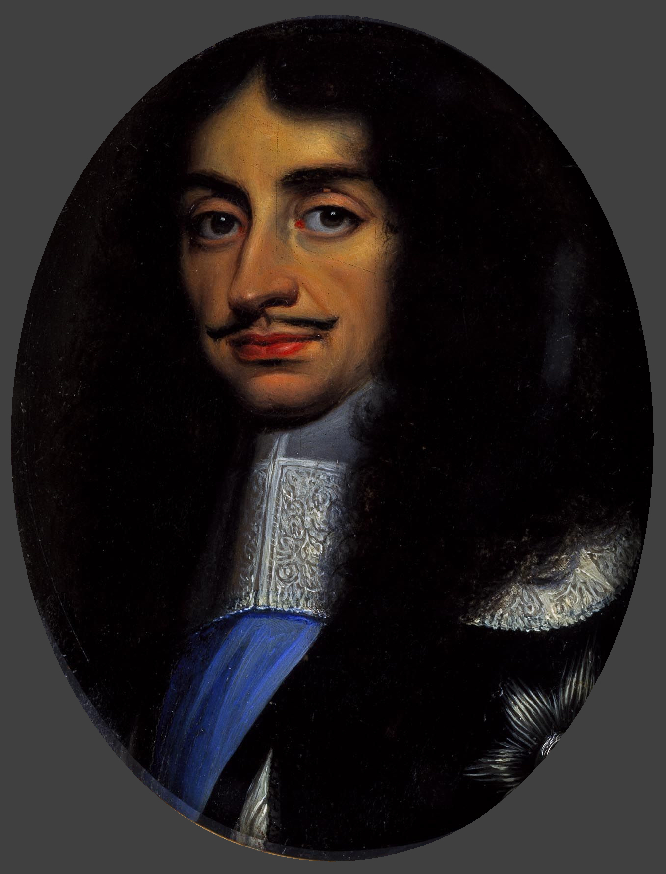 Charles II (reigned 1660-1685). Miniatures.